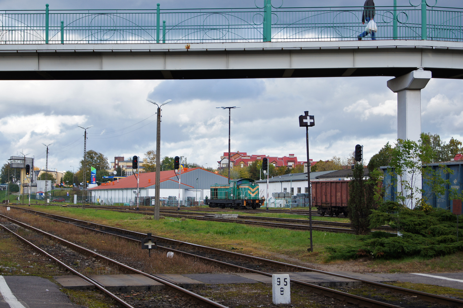 Train Station in Kwidzyn, Poland.